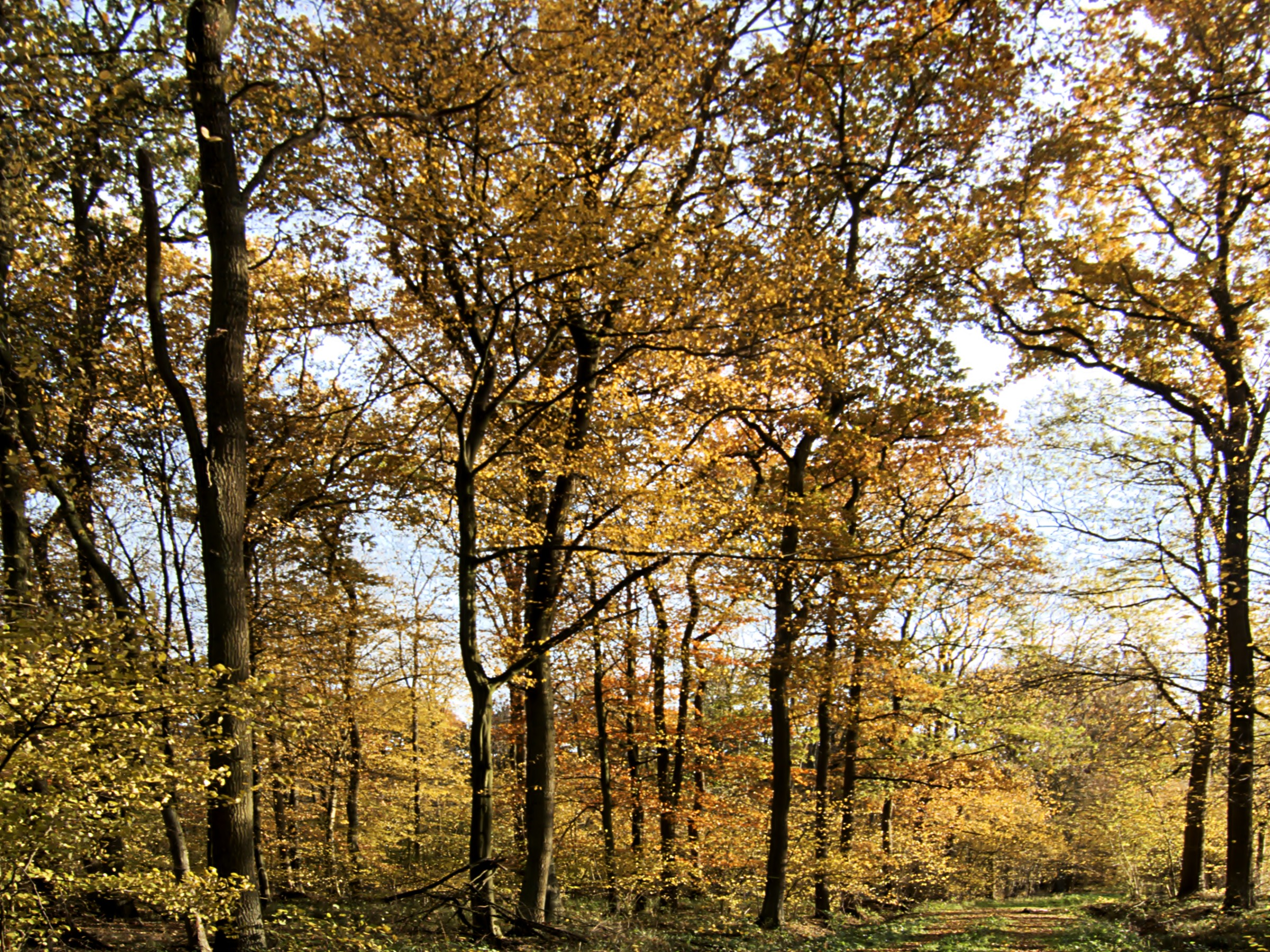 Name: Beech forest Fagus sylvatica. Location: Davert, Münster, NRW, Germany